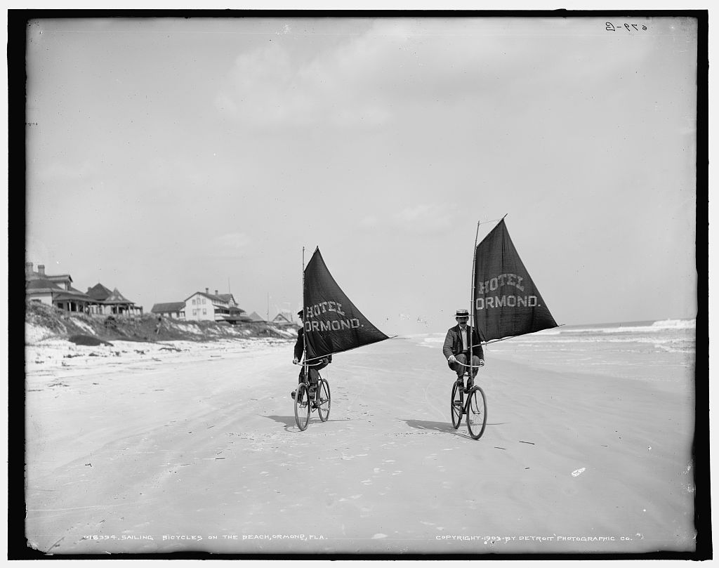 Sailing bicycles on the beach, Ormond, Florida, 1903. Librairy of congress